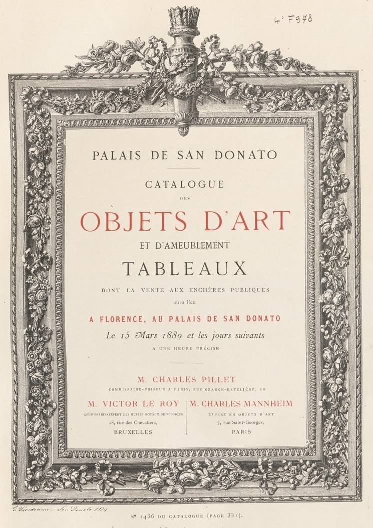 Title page of Demidov collection sale catalog